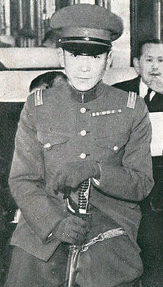 Baron Nishi (西竹一, 1902–45)